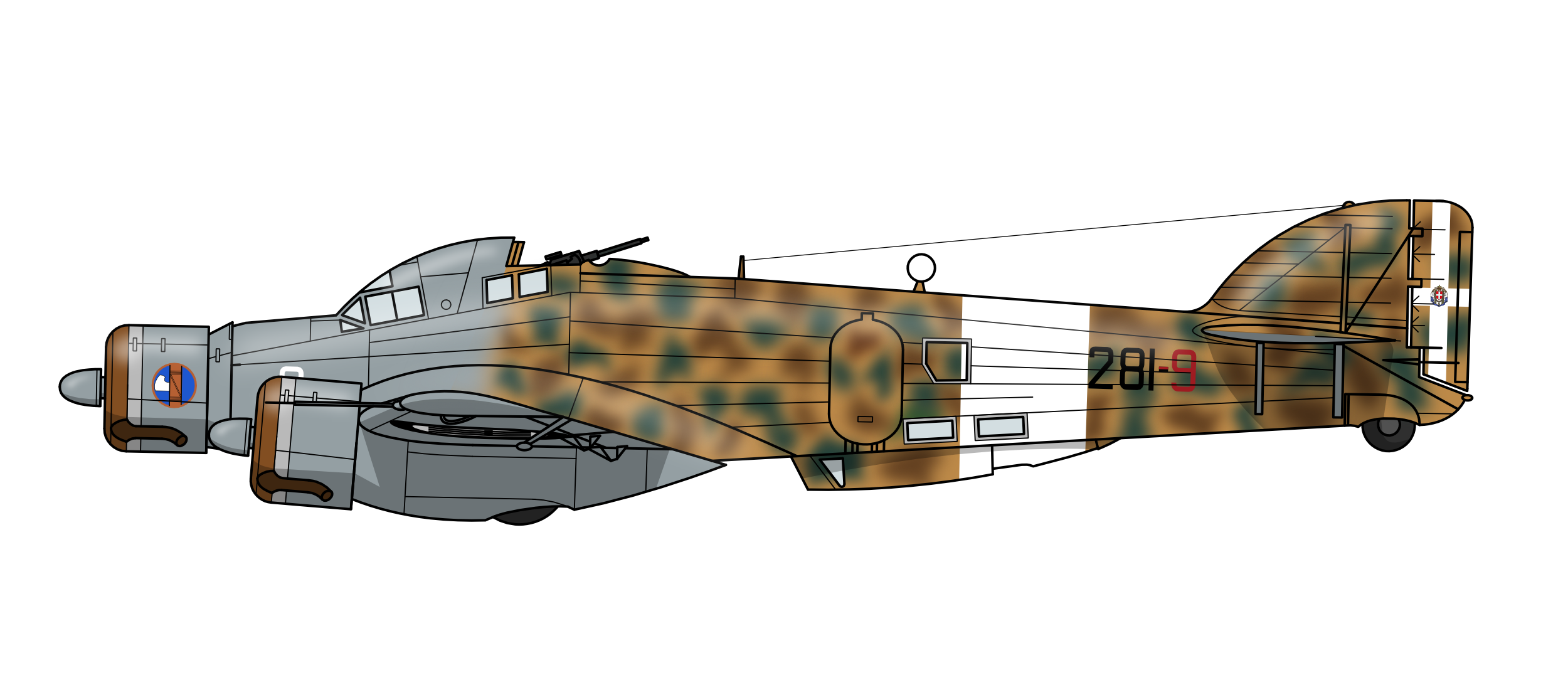 Profile of Giulio Cesare Graziani's Savoia-Marchetti SM.79 torpedo bomber.